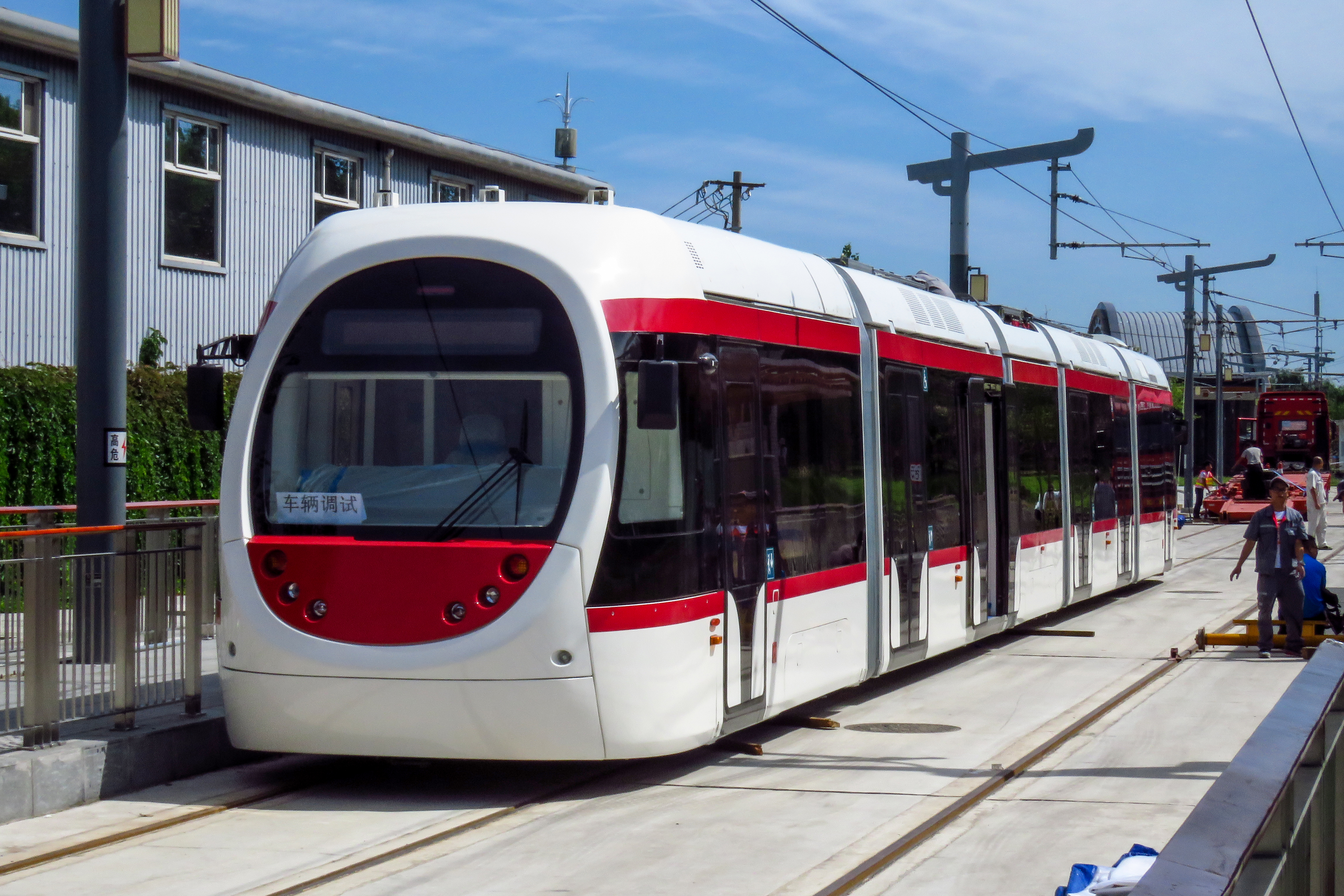 No fleet numbers?